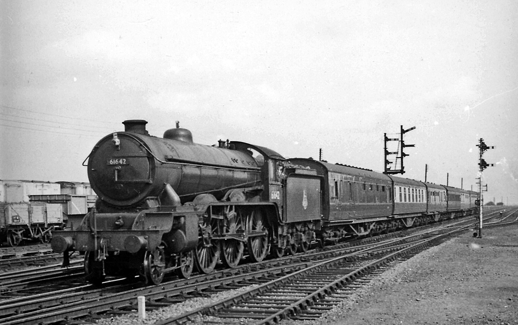 Ely - Birmingham express entering March. View eastward, towards Ely; ex-Great Eastern London - Cambridge - Ely etc. - March and the Midlands via Peterborough or the North via Spalding main lines. The 14.26 Ely - Birmingham New Street is headed by LNE B17/6 4-6-0 No. 61642 'Kilverstone Hall'.